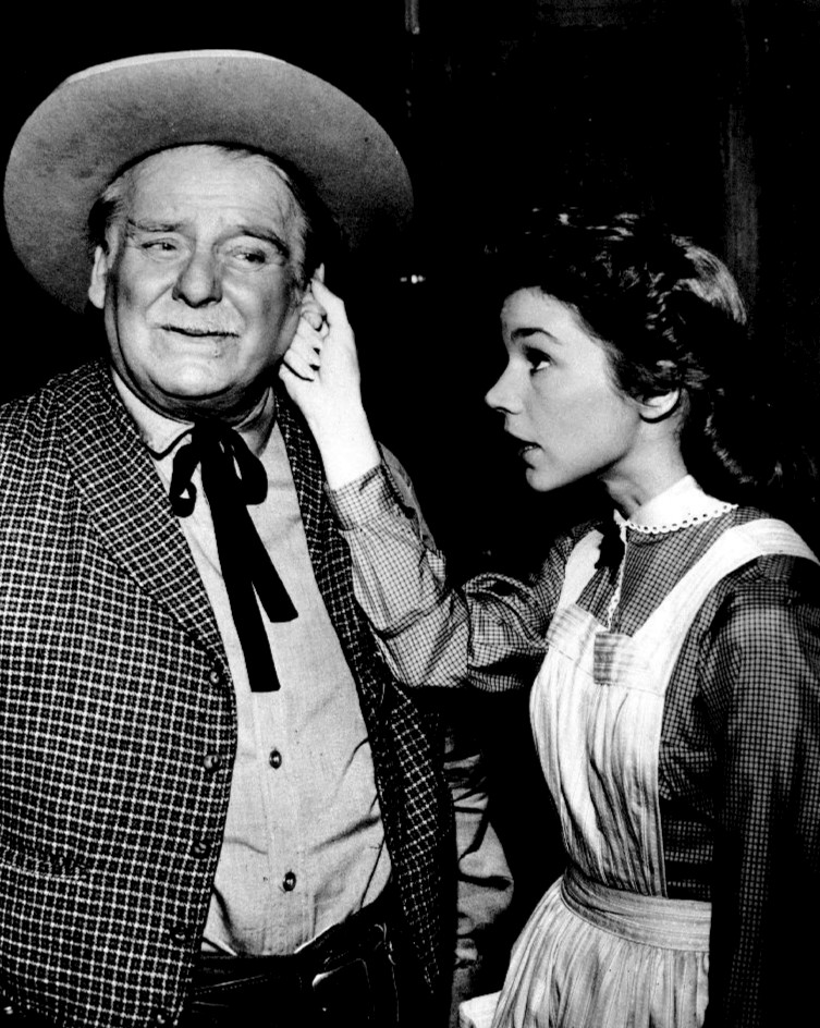 Photo of Wallace Ford as Herk Lamson and Betty Lou Keim from the television series The Deputy.